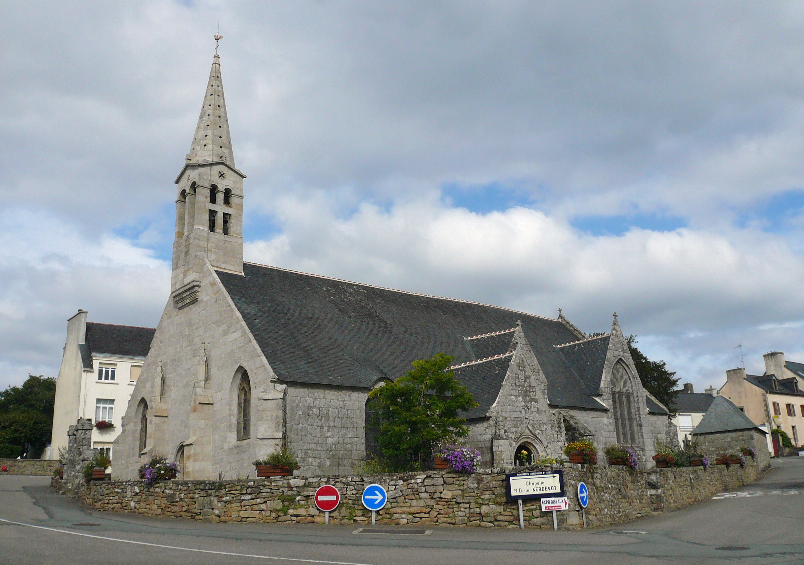 Saint Gwenael's church and its enclosure in Ergué-Gabéric, Finistère, Brittany, France. .